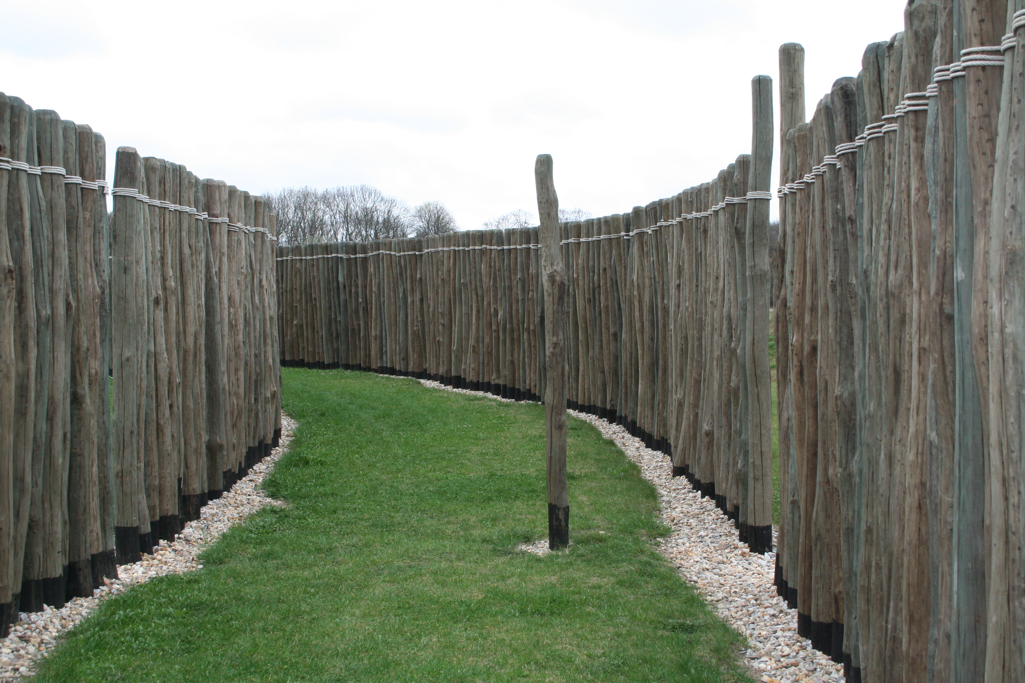 Circular ditch of Goseck